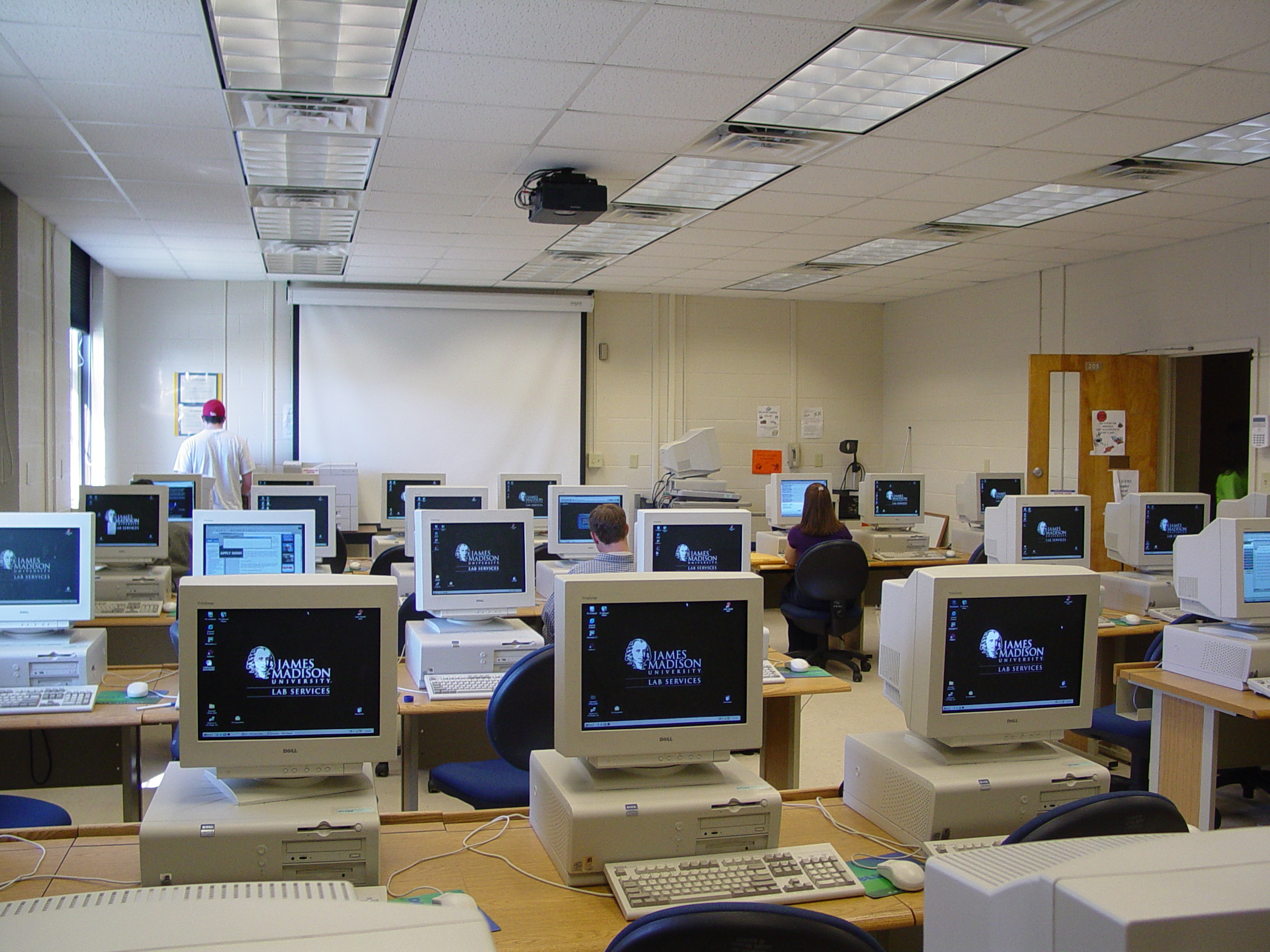 Computer lab, Moody Hall, James Madison University